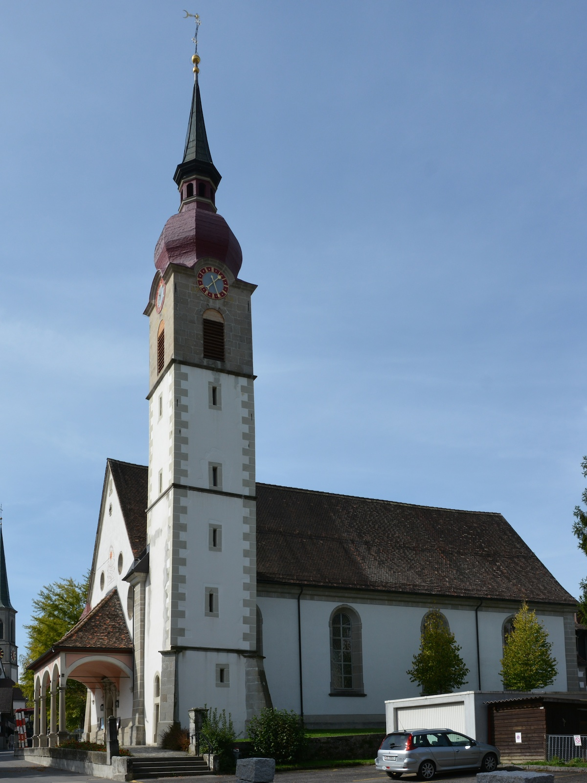 Katholische Marienkirche (alte Pfarrkirche) Outside